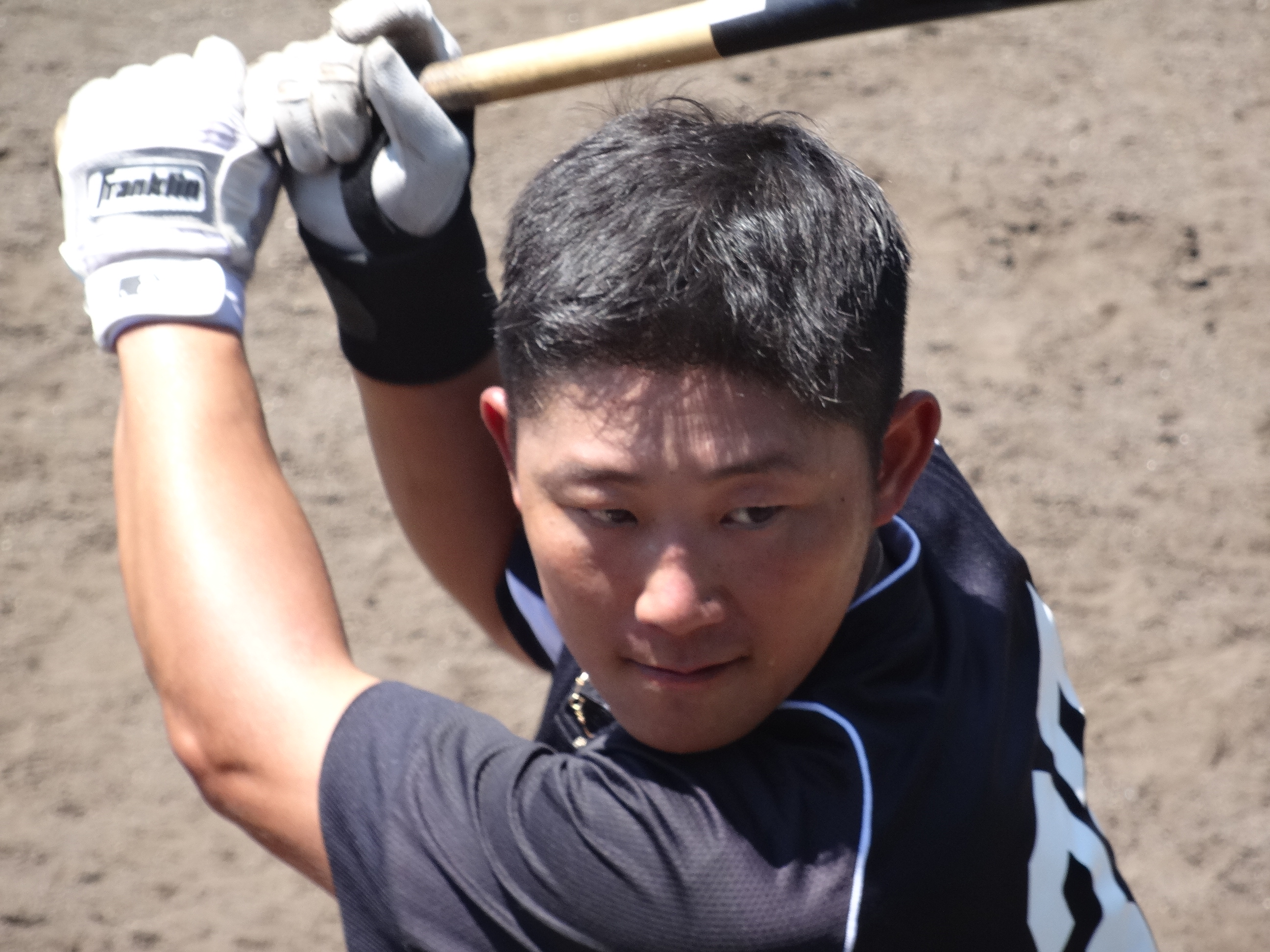 Taiki Mitsumata, infielder of the Chunichi Dragons, at Hanshin Naruohama Baseball Ground